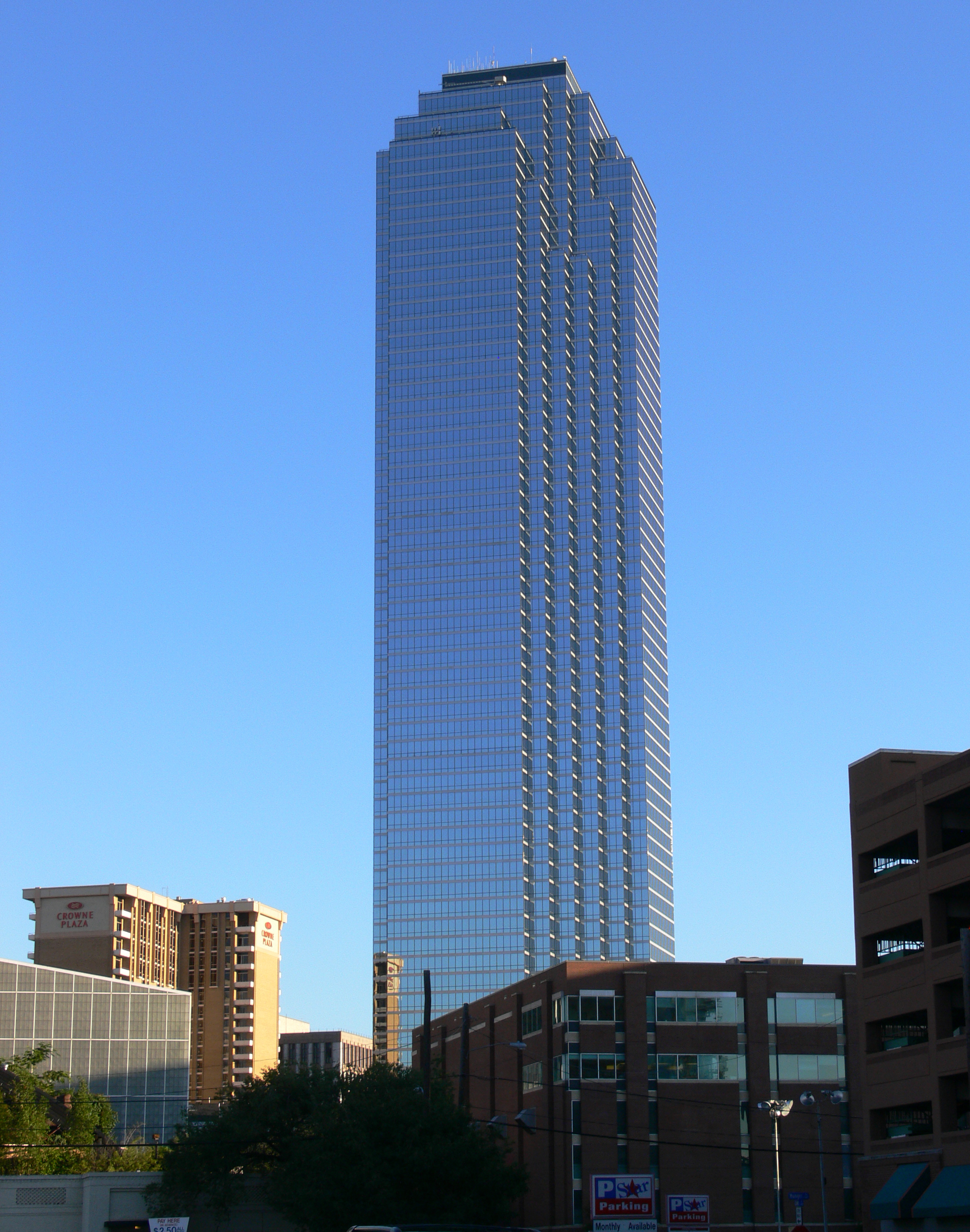 Bank of America Plaza, Dallas, Texas